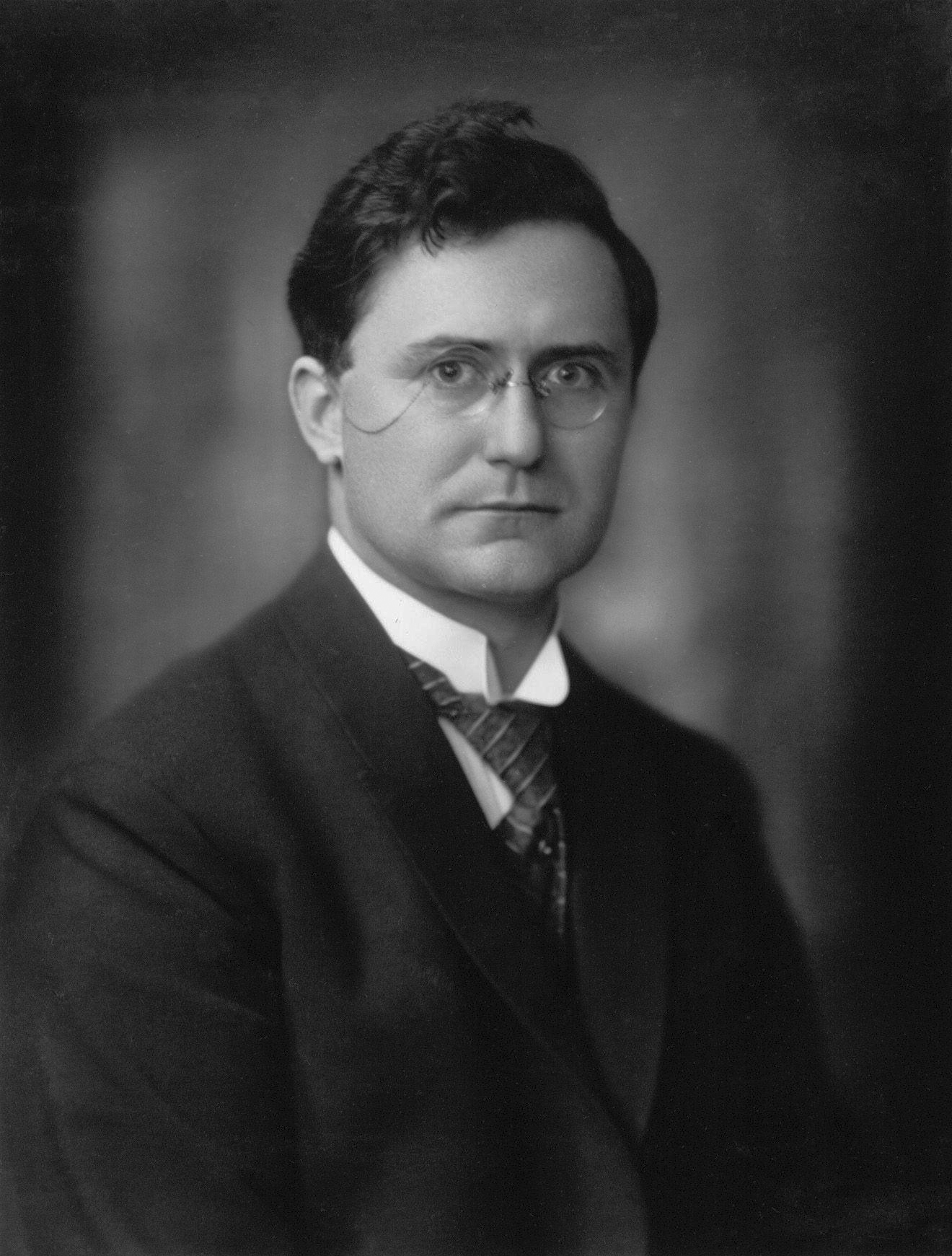 Dr. Jan Waterink (1890-1966) Hoogleraar in de psychologie en pedagogie aan de V.U. 1920